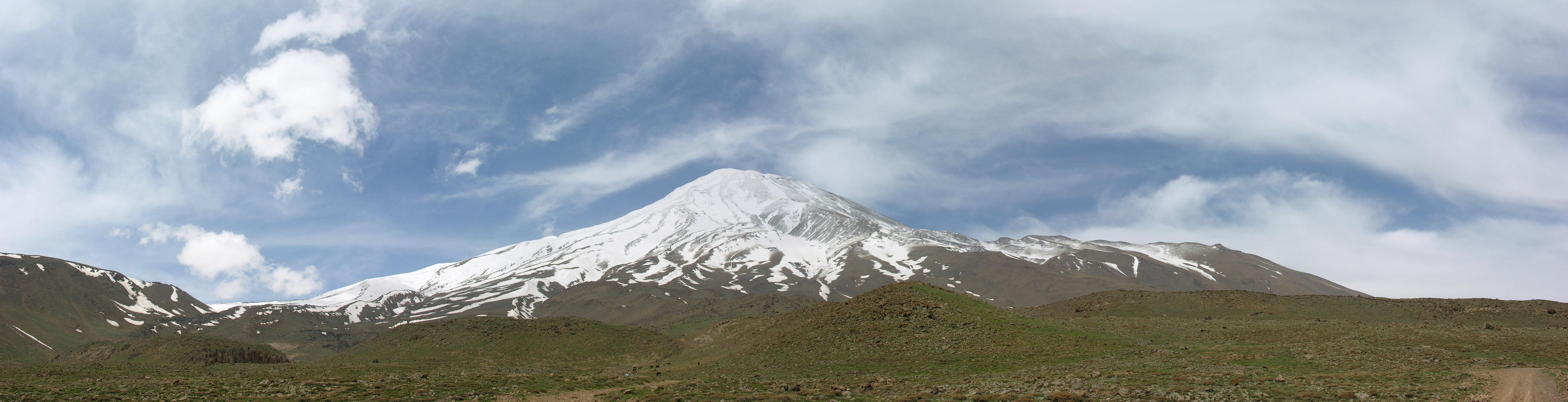 Iran, Damavand from Abbasabad